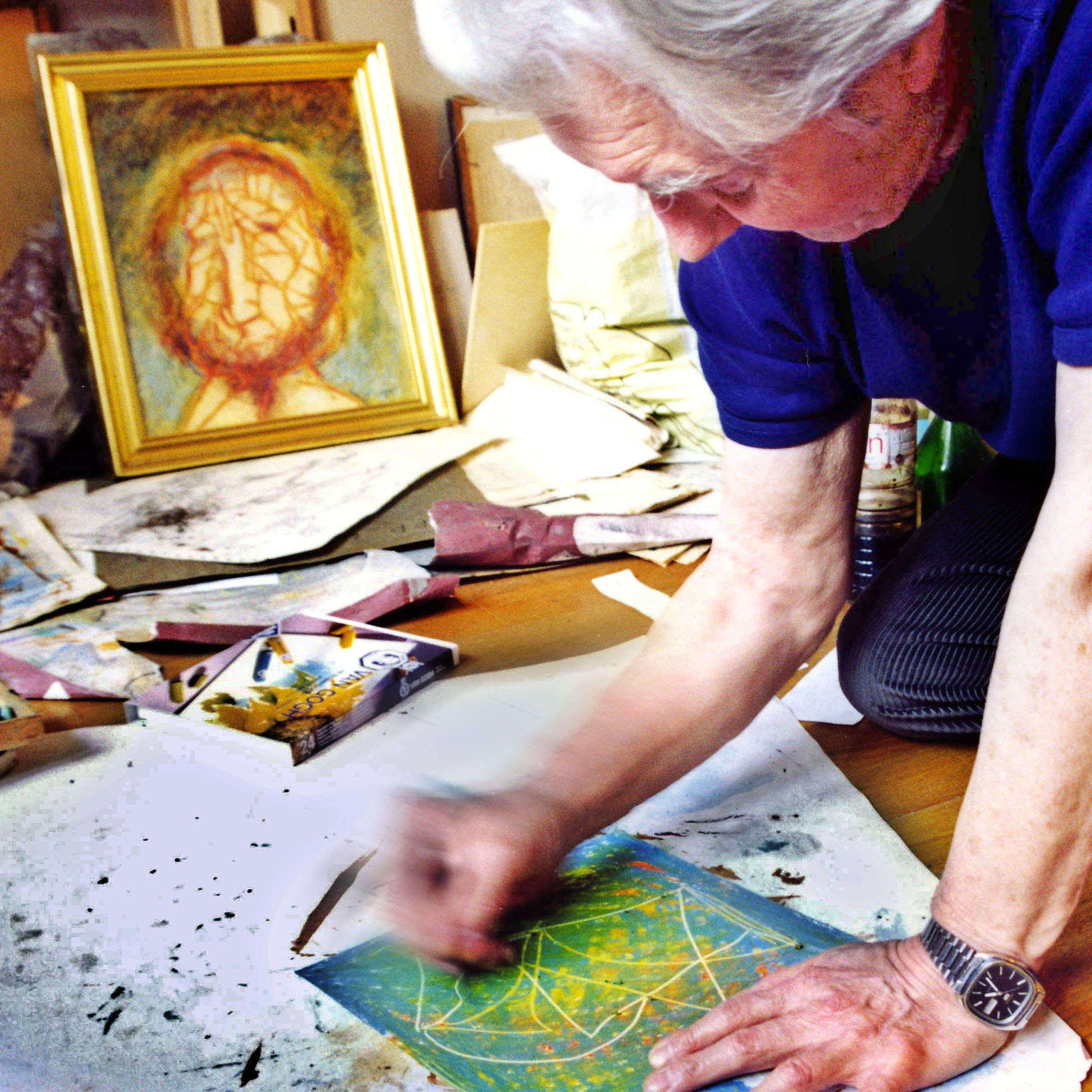 Oscar Papp Hungarian painter in work time, at Your's home studio, 06. 06. 2003.